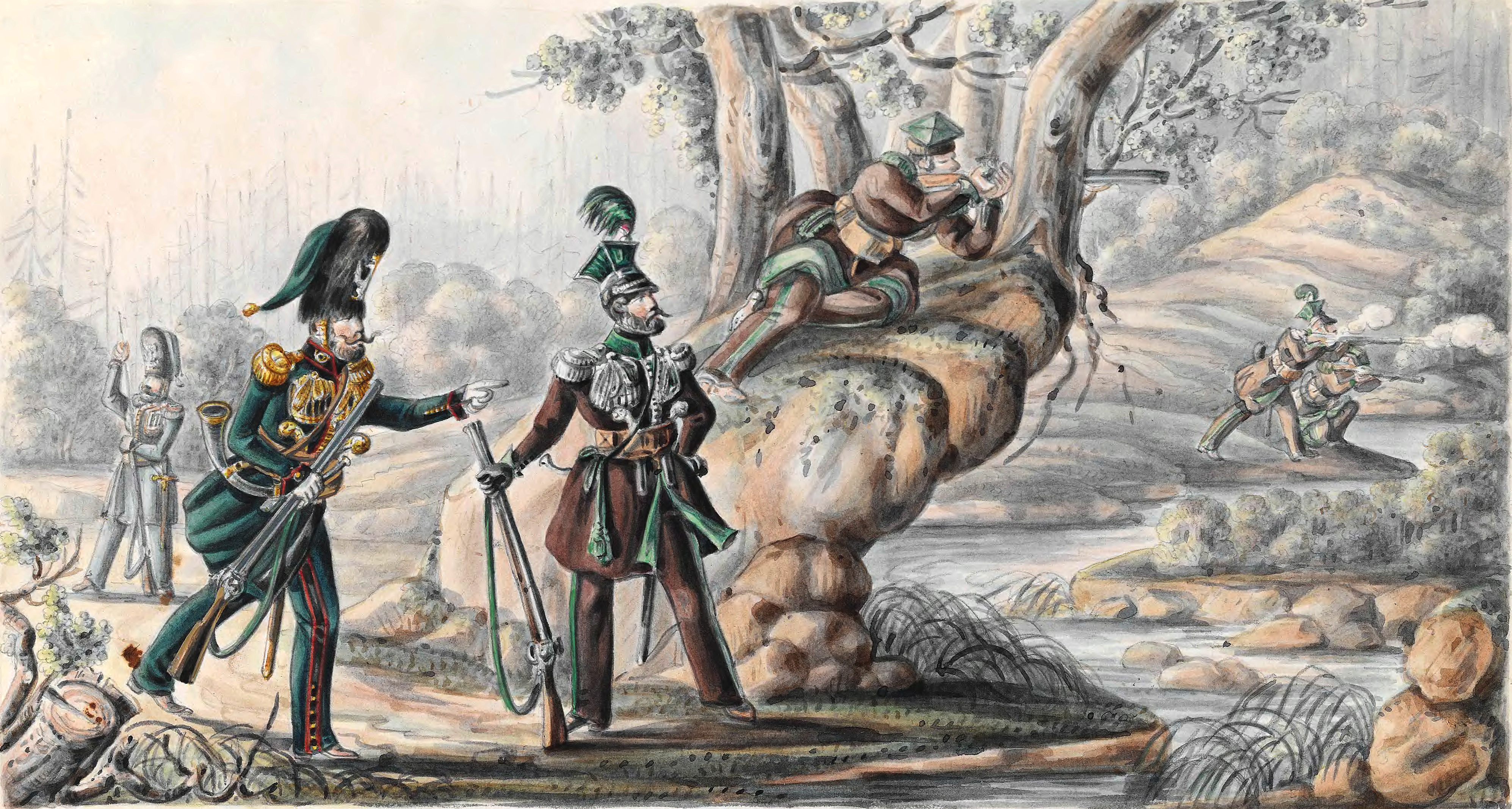 Polish snipers of November Uprising